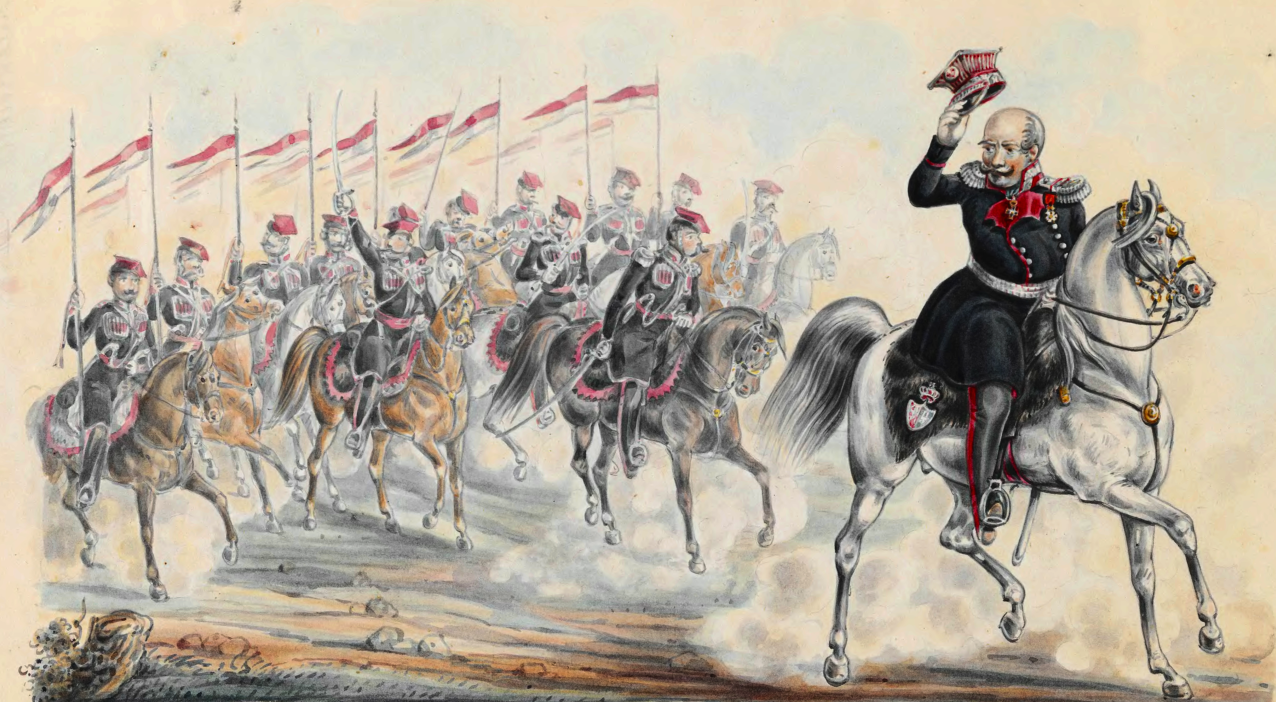 General Józef Dwernicki heading Squadron of krakusi of Prince Józef Poniatowski name